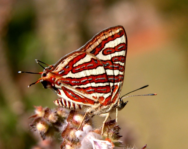 Common Silverline, Spindasis vulcanus photographed in Bangalore